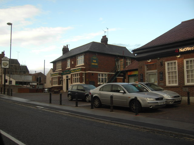 The Swan, Sherburn-in-Elmet The Swan Pub in Sherburn-in-Elmet.